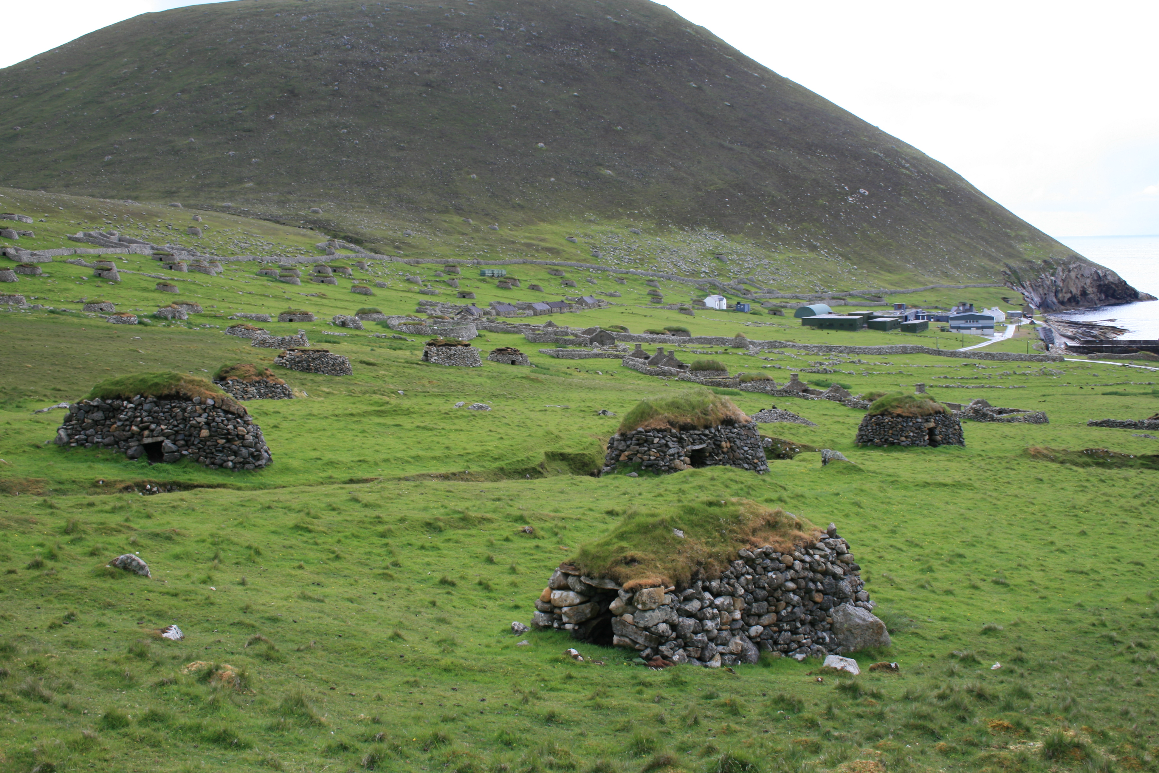 Village Bay in Hirta, St Kilda